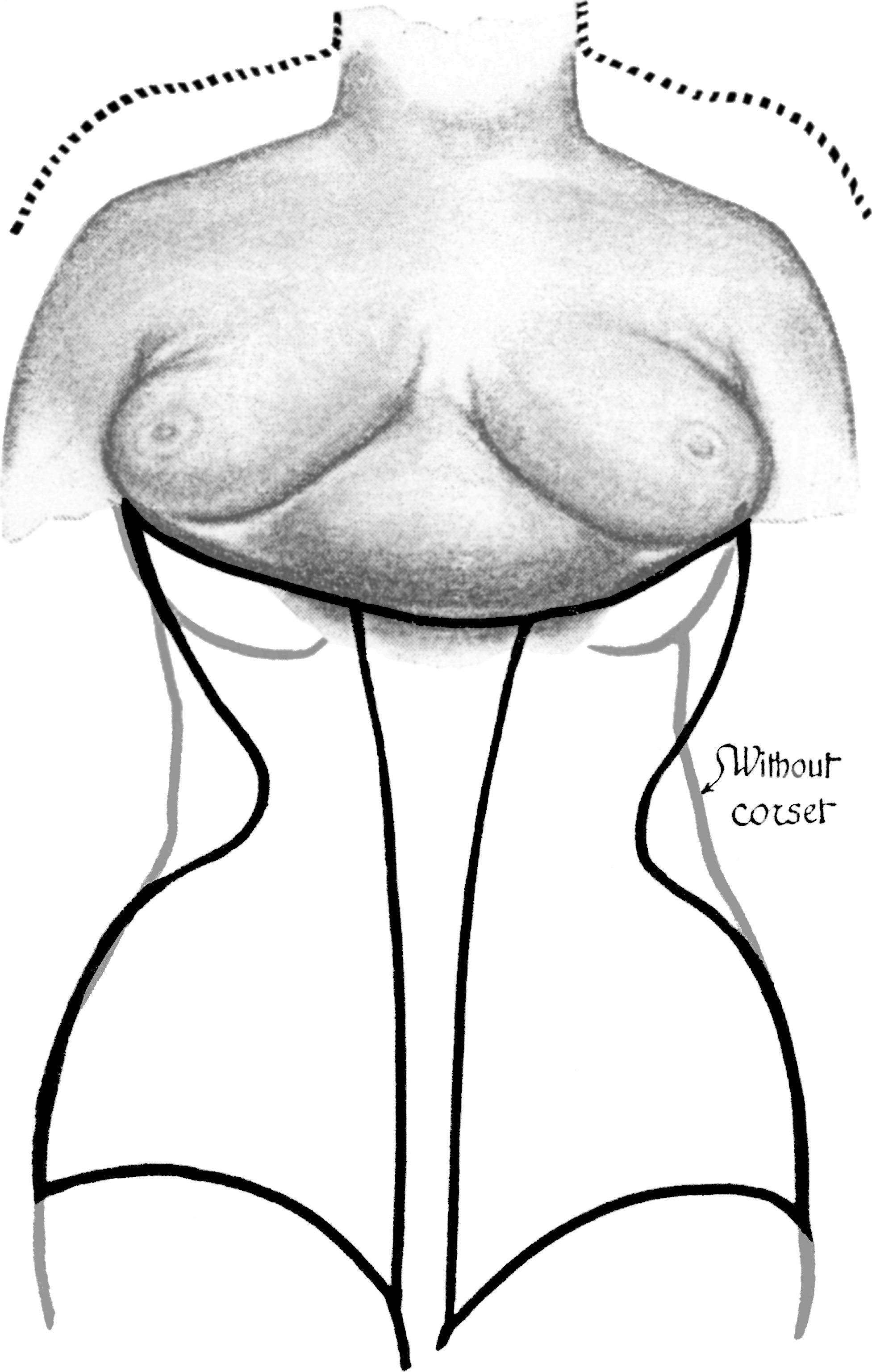 Epigastrium of singer. Dotted line shows full expansion.